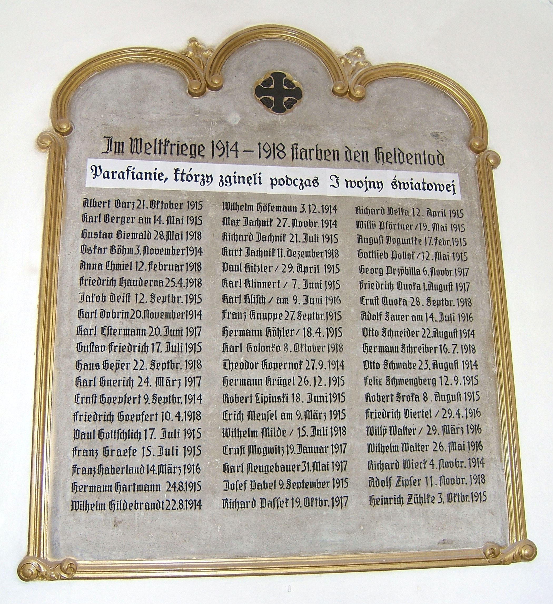 A plaque commemorating World War I in Our Savior Lutheran Church in Szopienice.